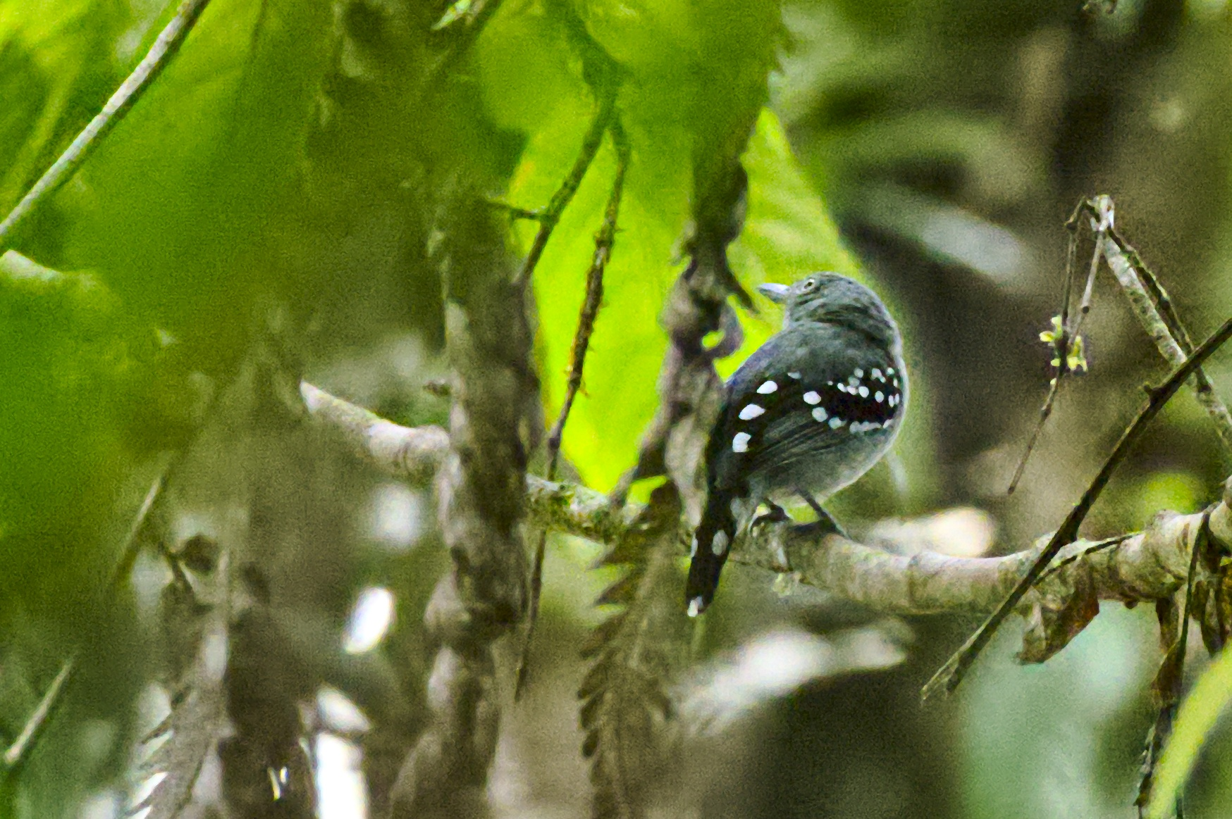 Pearly Antshrike at Comunidad Pueblo Nuevo near Mitú, Vaupés, Colombia